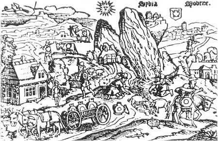 Collection of petroleum near Modena (Montegibbo)